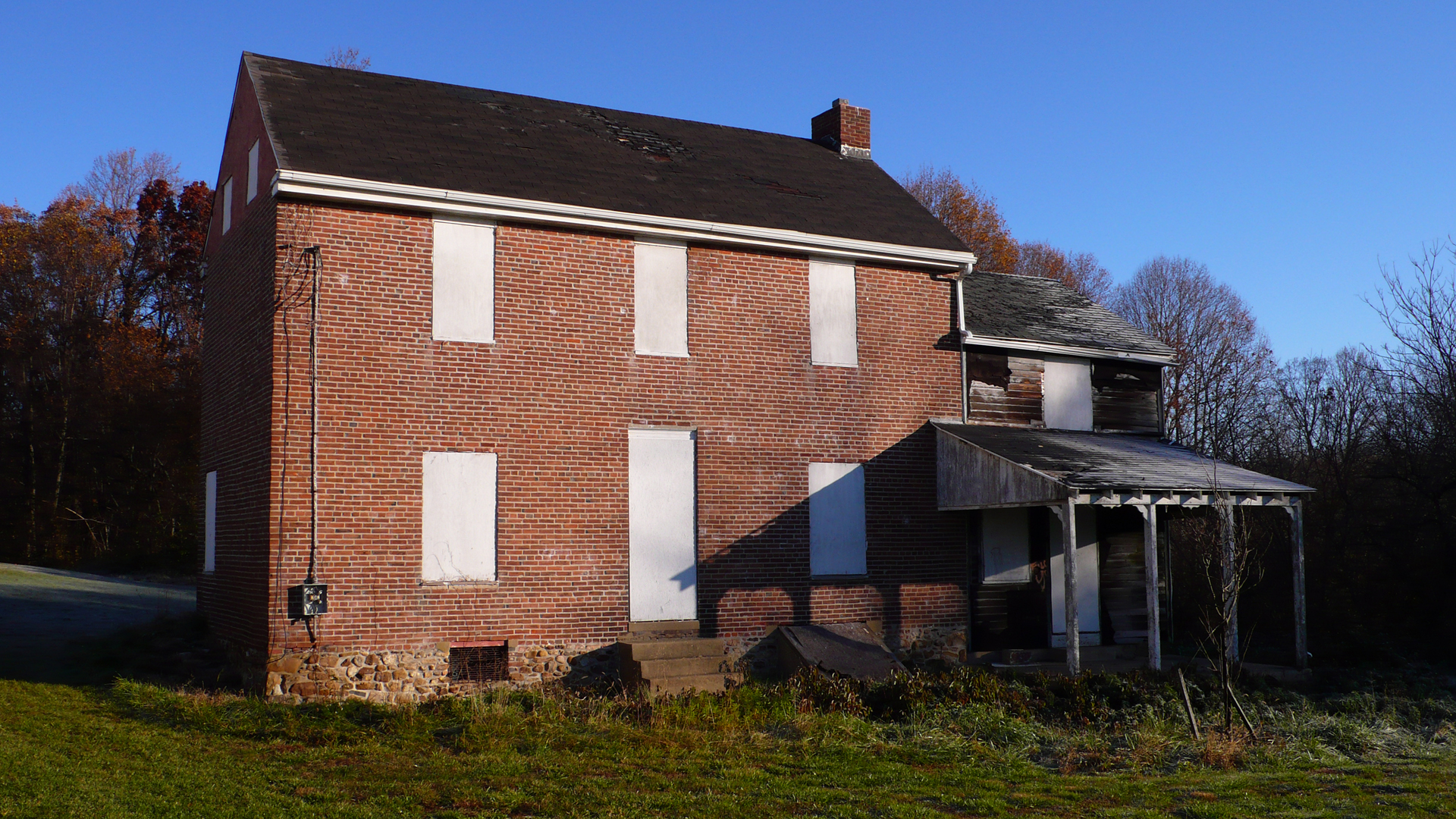 The Charles Allen House near Christiana, Delaware.